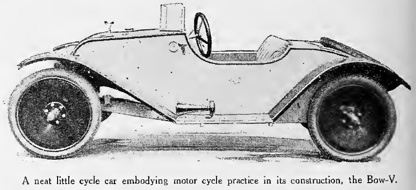 One of few images of this car - this was the subject of an article in Motor Cycle magazine and the vehicles UK registration number was BY8596 Other information Scanned PDF is freely downloadable from location specified below, scanned in by Boston Public Library